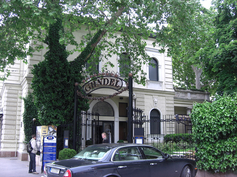 Exterior of Gundel Étterem, Budapest